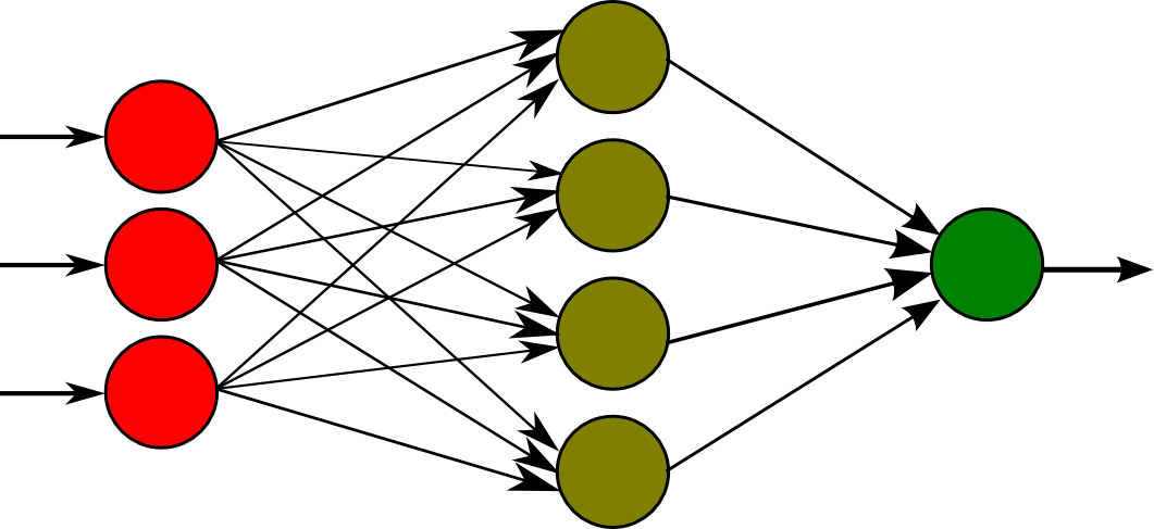 This is the structure of a classical Multi-Layer Perceptron (MLP)